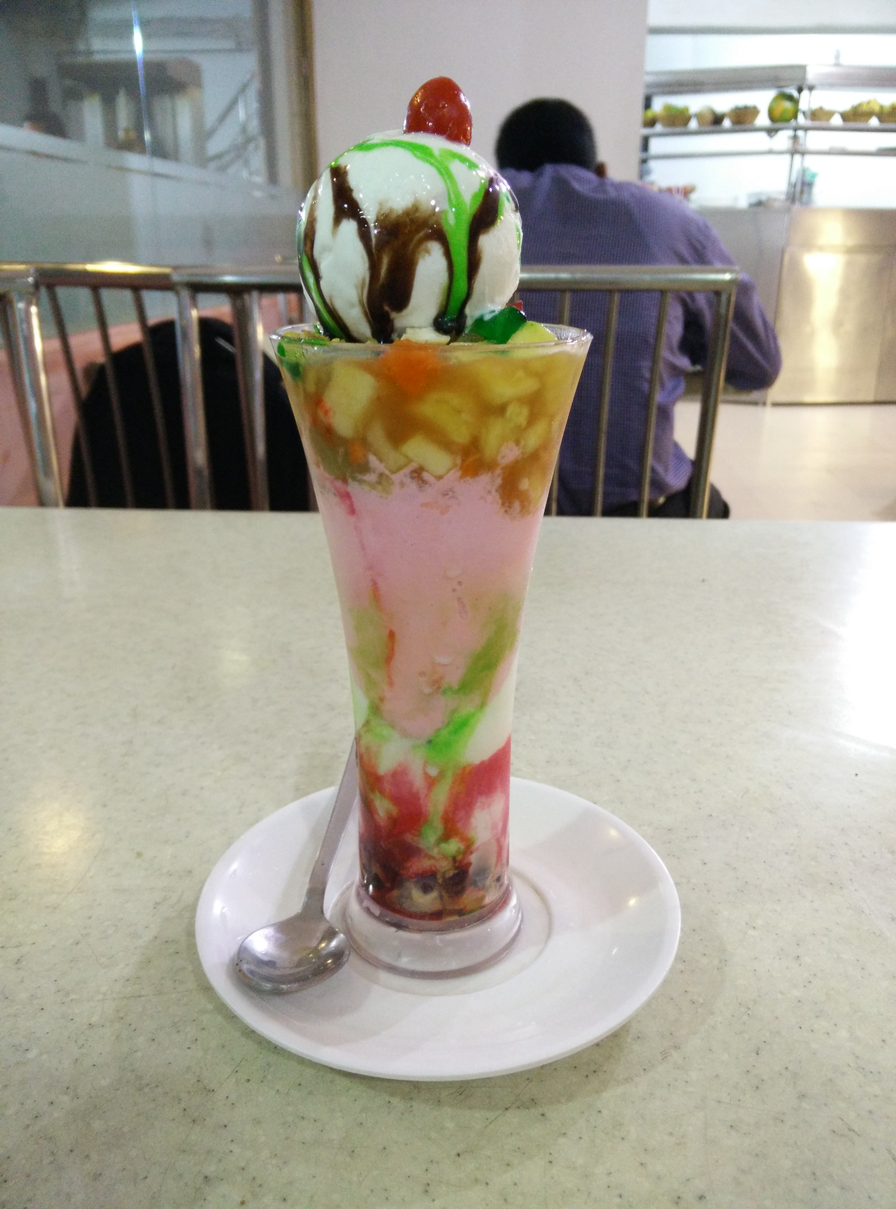 A richer version of the regular Falooda with fruits, nuts and often icecream topping.